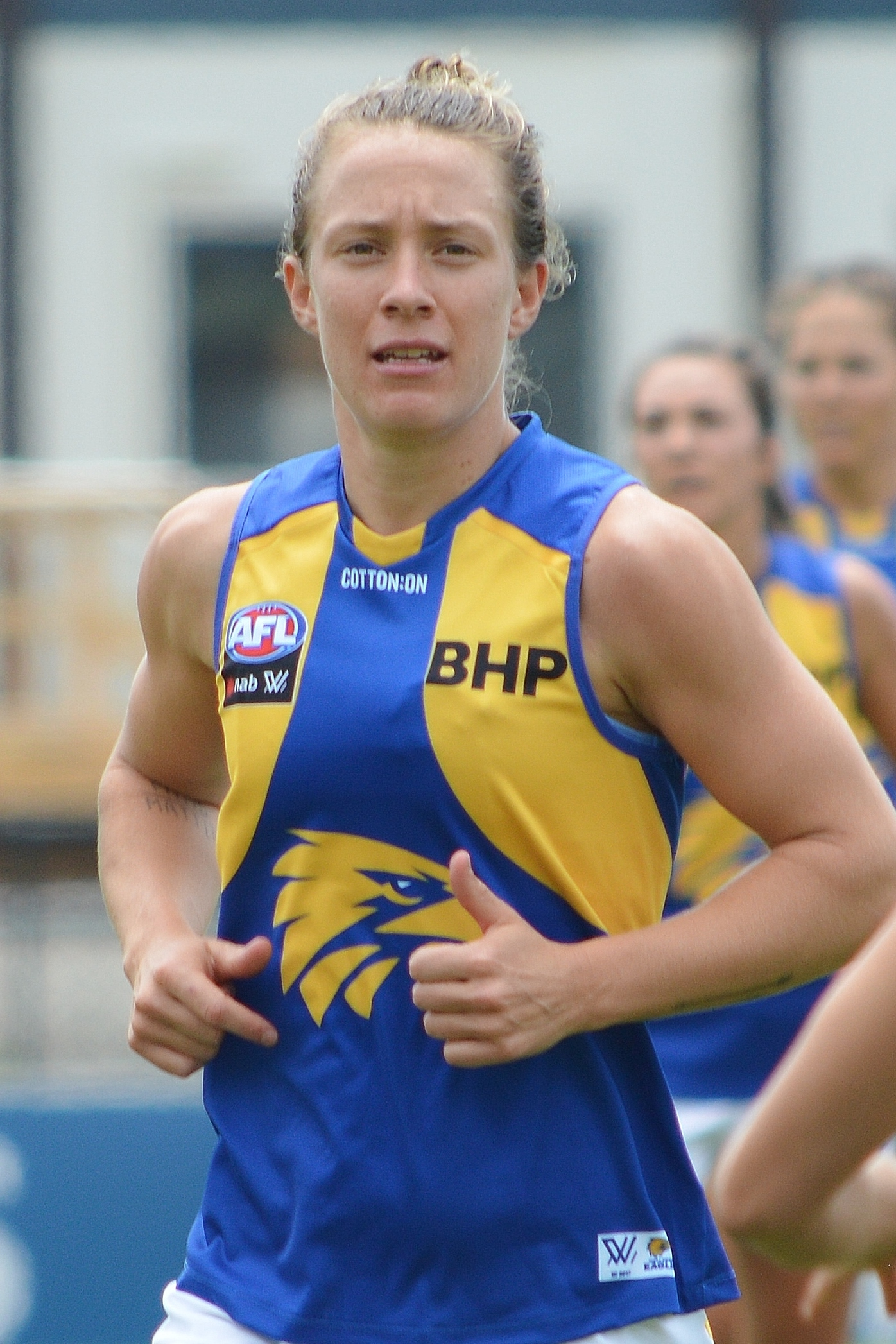 Emma Swanson with West Coast during a pre-season AFL Women's match against Richmond at Punt Road Oval in January 2020.